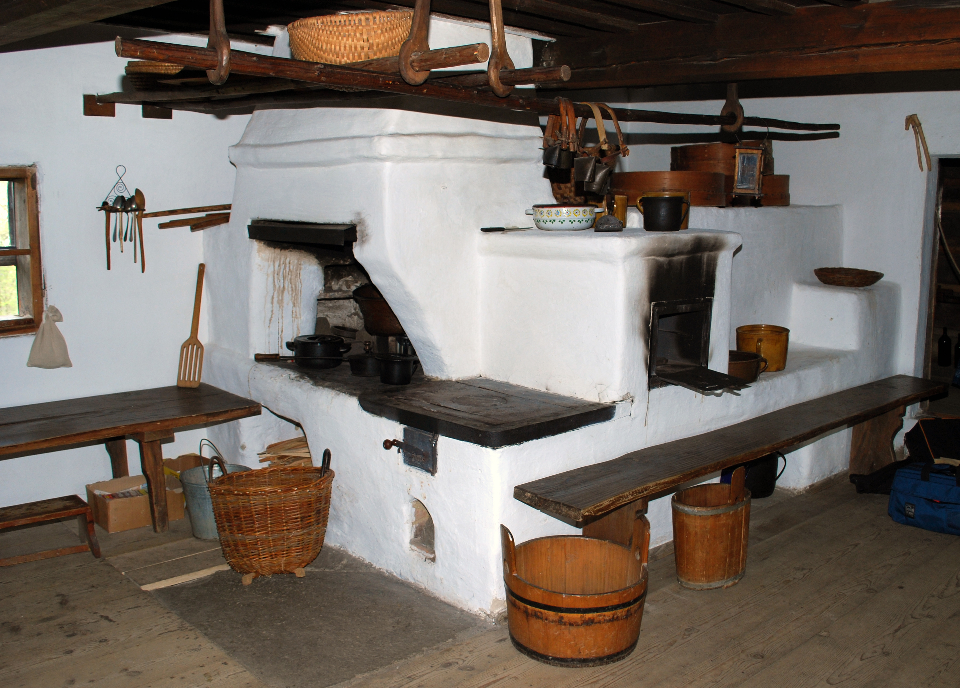 Farmstead from Karolinka - Rakosove Valley - oven